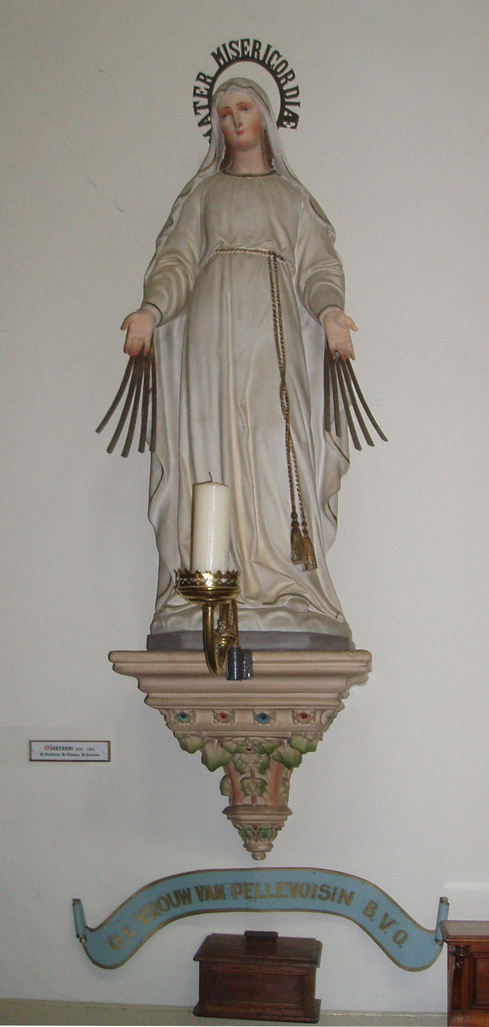 Virgin Mary of Pellevoisin in beguinage Hoogstraten